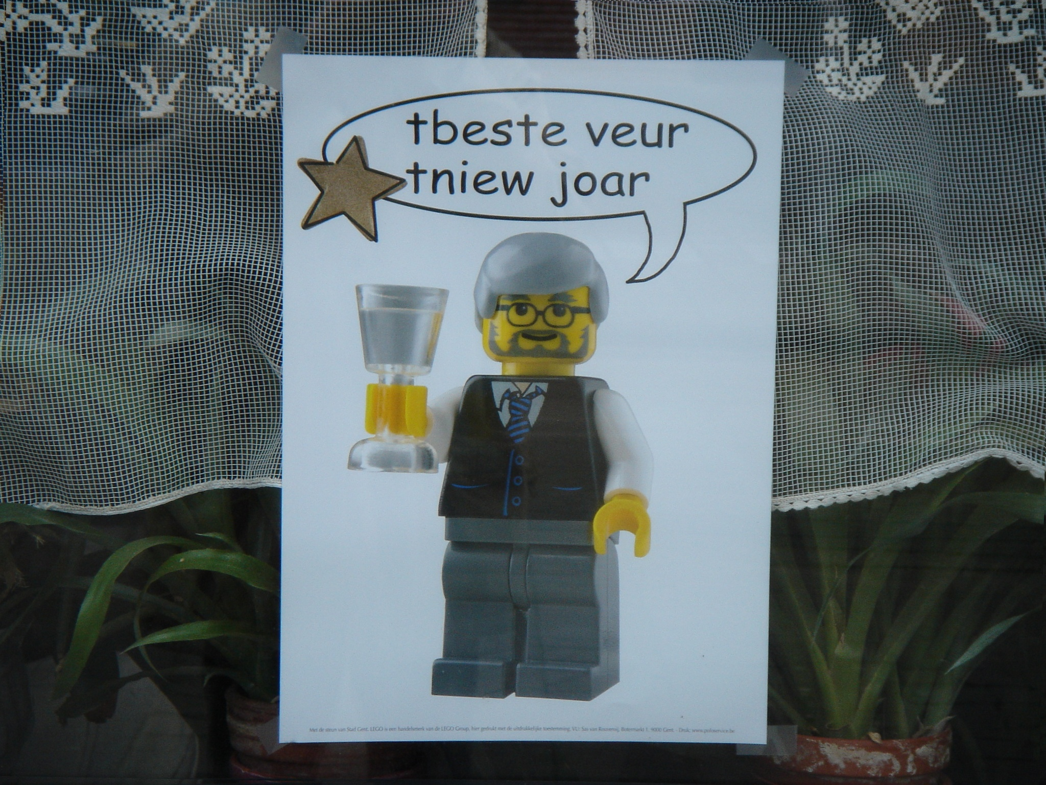 Flemish New Year greeting card.